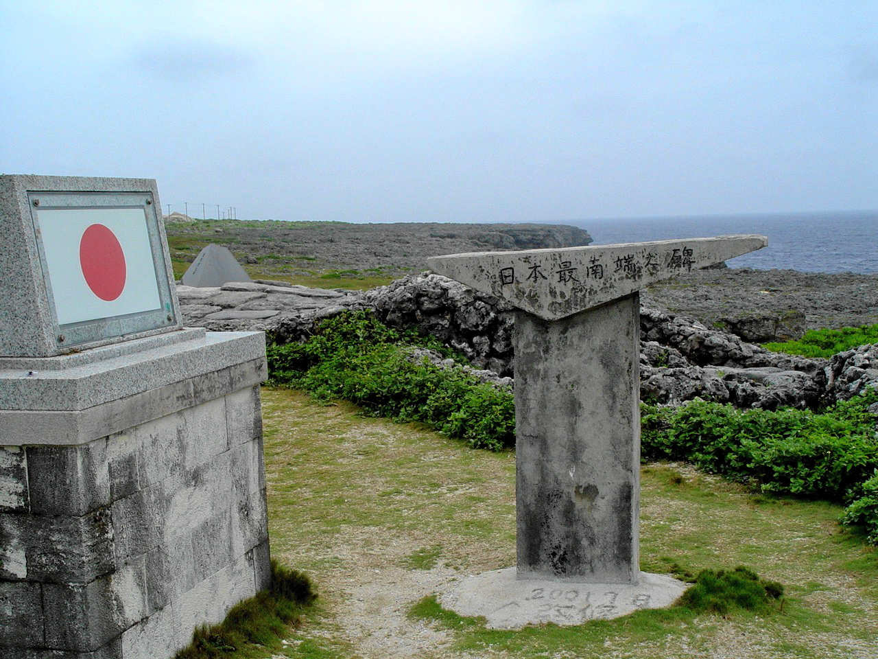 Hateruma. The stele of south end of Japan.